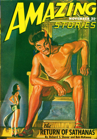 Cover of Amazing Stories, November 1946